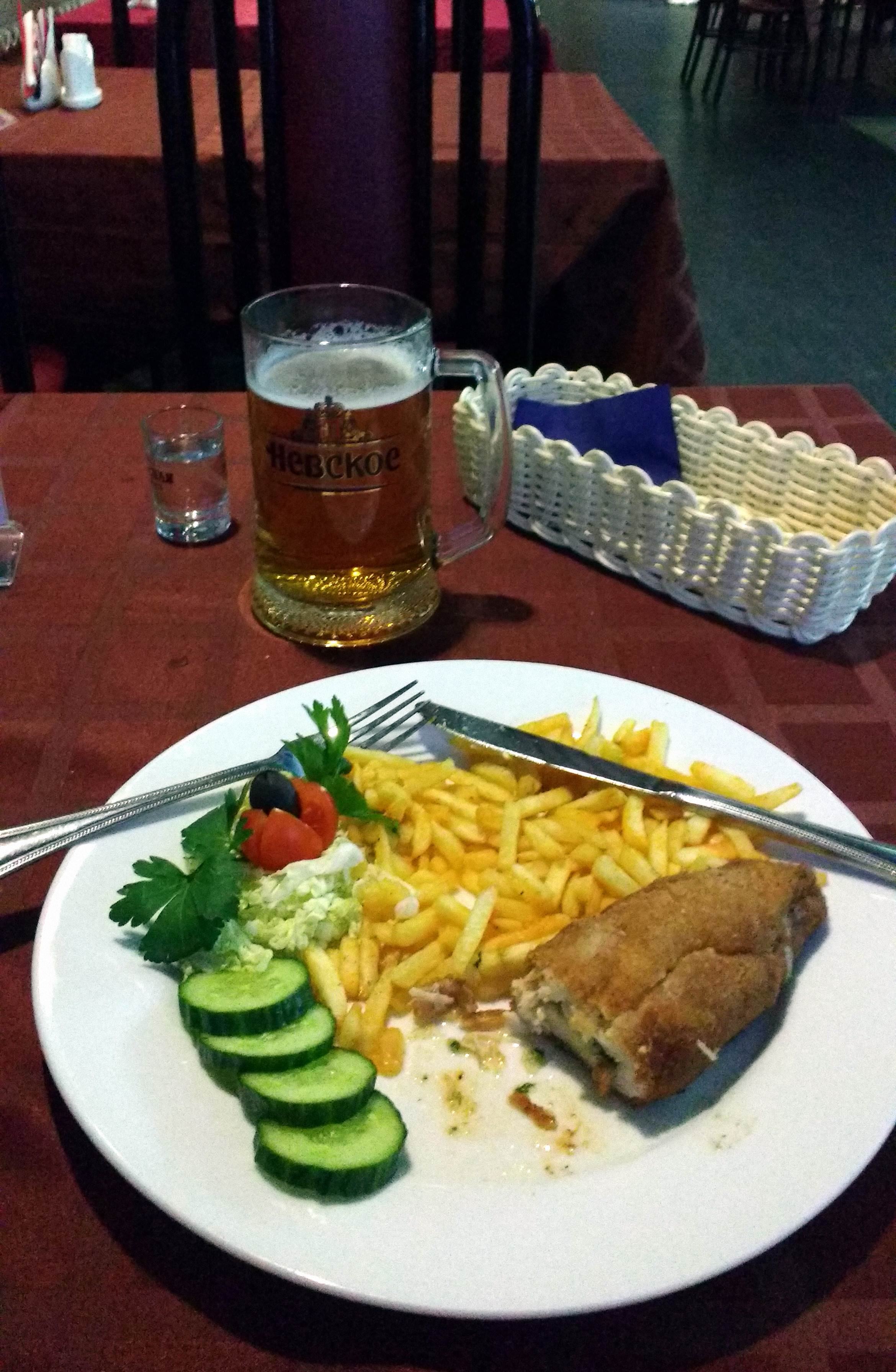 Chicken Kiev in Johannes (Sovetski)